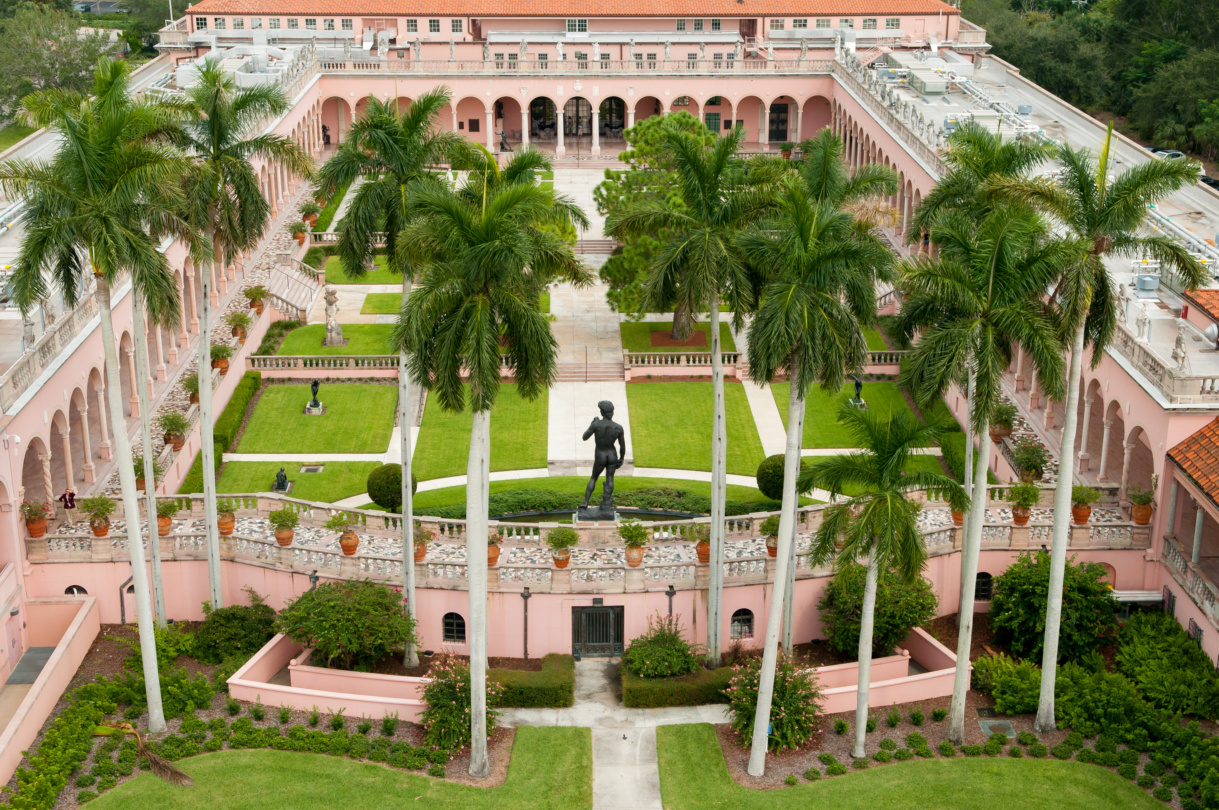 An aeriel View of The John and Mable Ringling Museum of Art Courtyard in Sarasota, Florida. This is the State Art Museum of Florida.